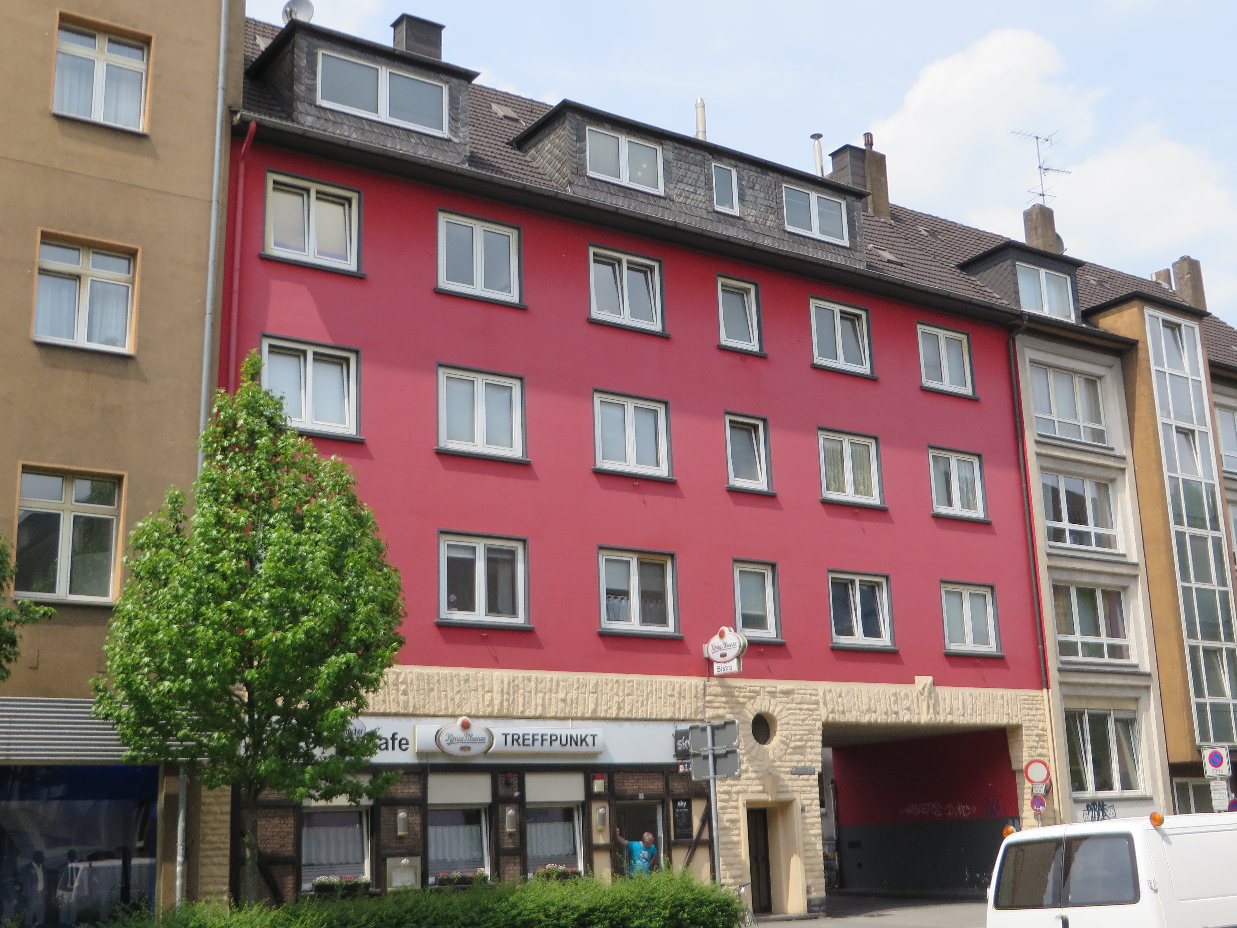 House Berliner Straße 28 in Witten, Germany